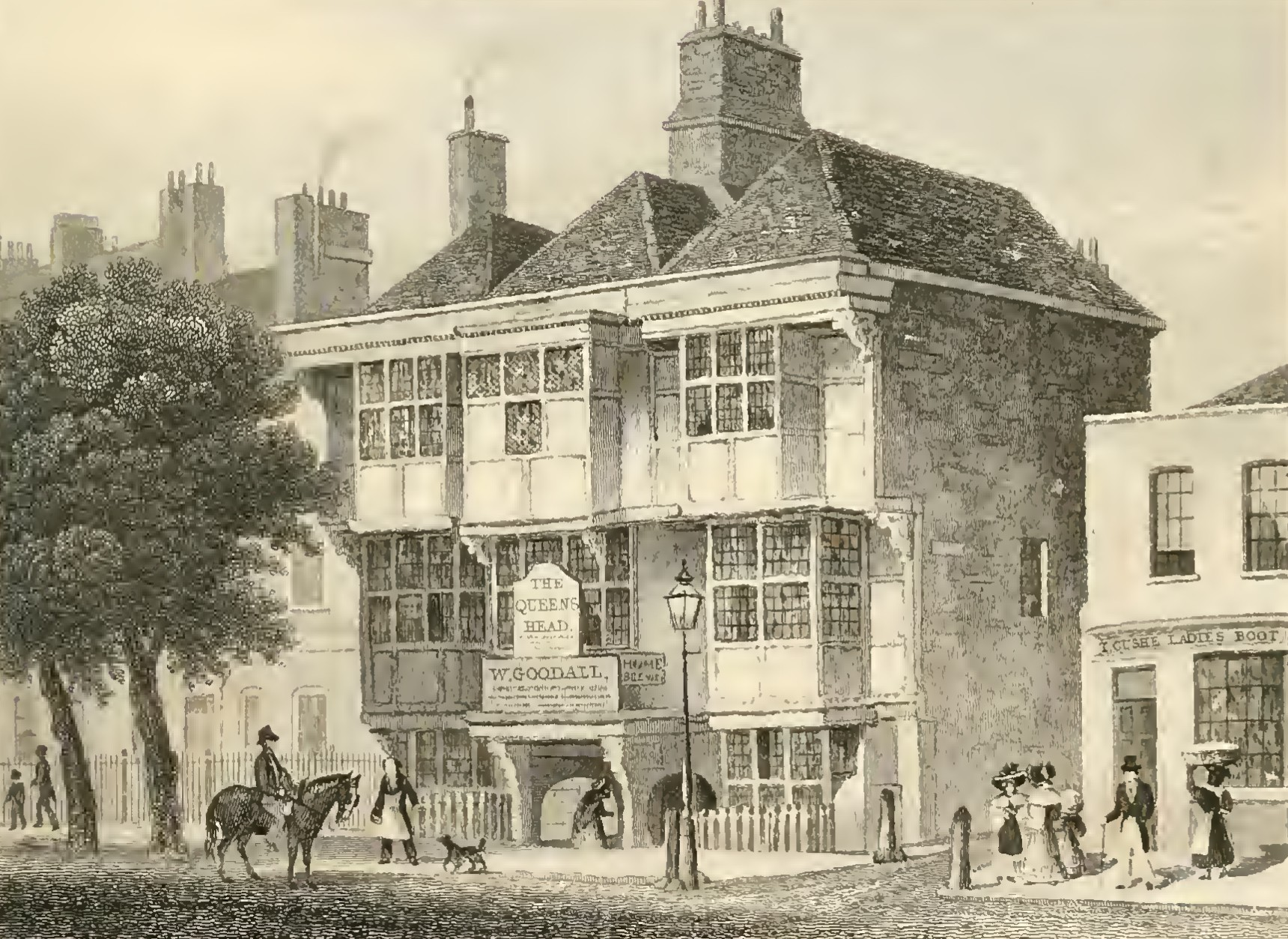 The Old Queen's Head, Islington, London.